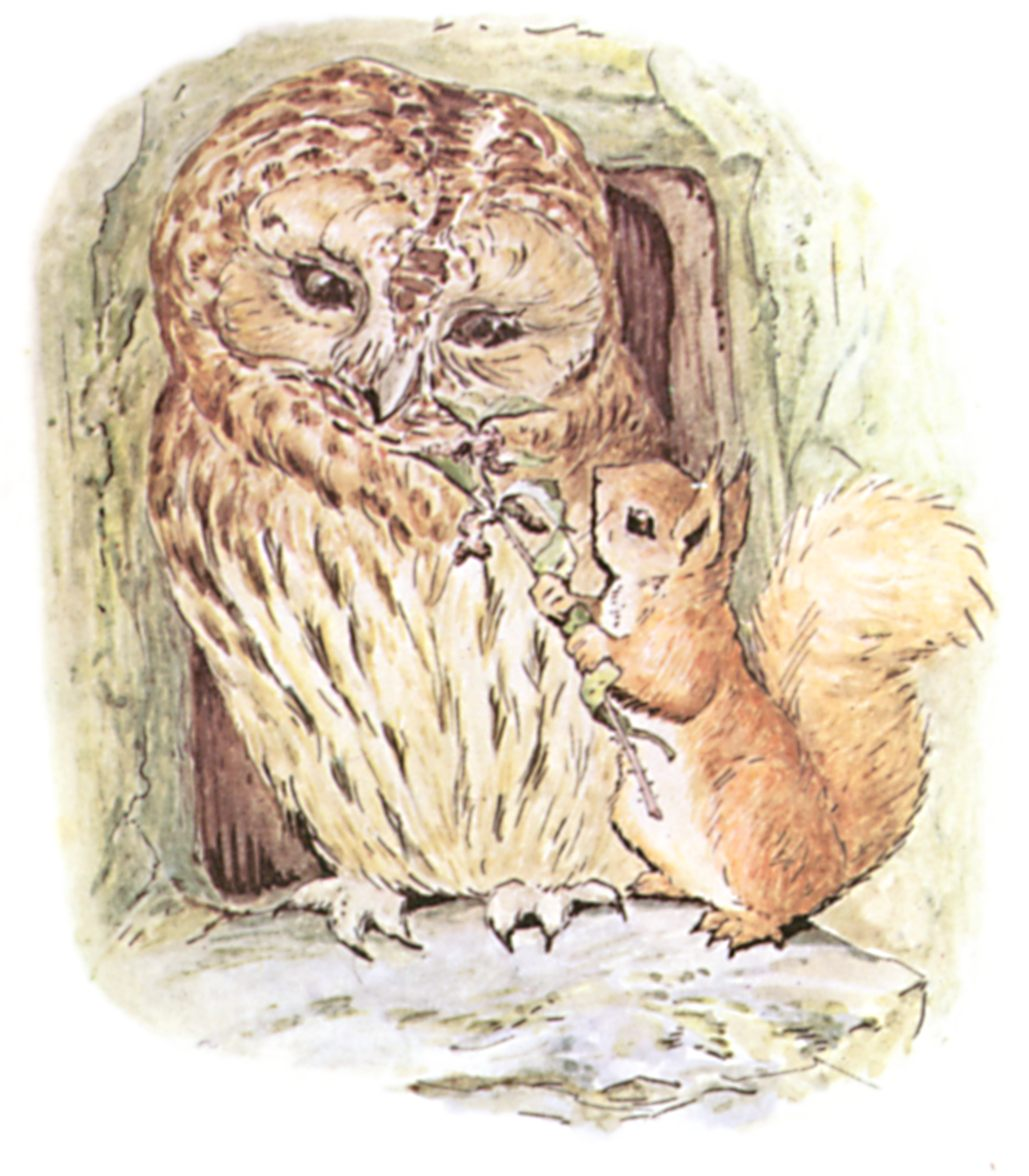 Illustration of Squirrel Nutkin with Mr. Brown, from The Tale of Squirrel Nutkin